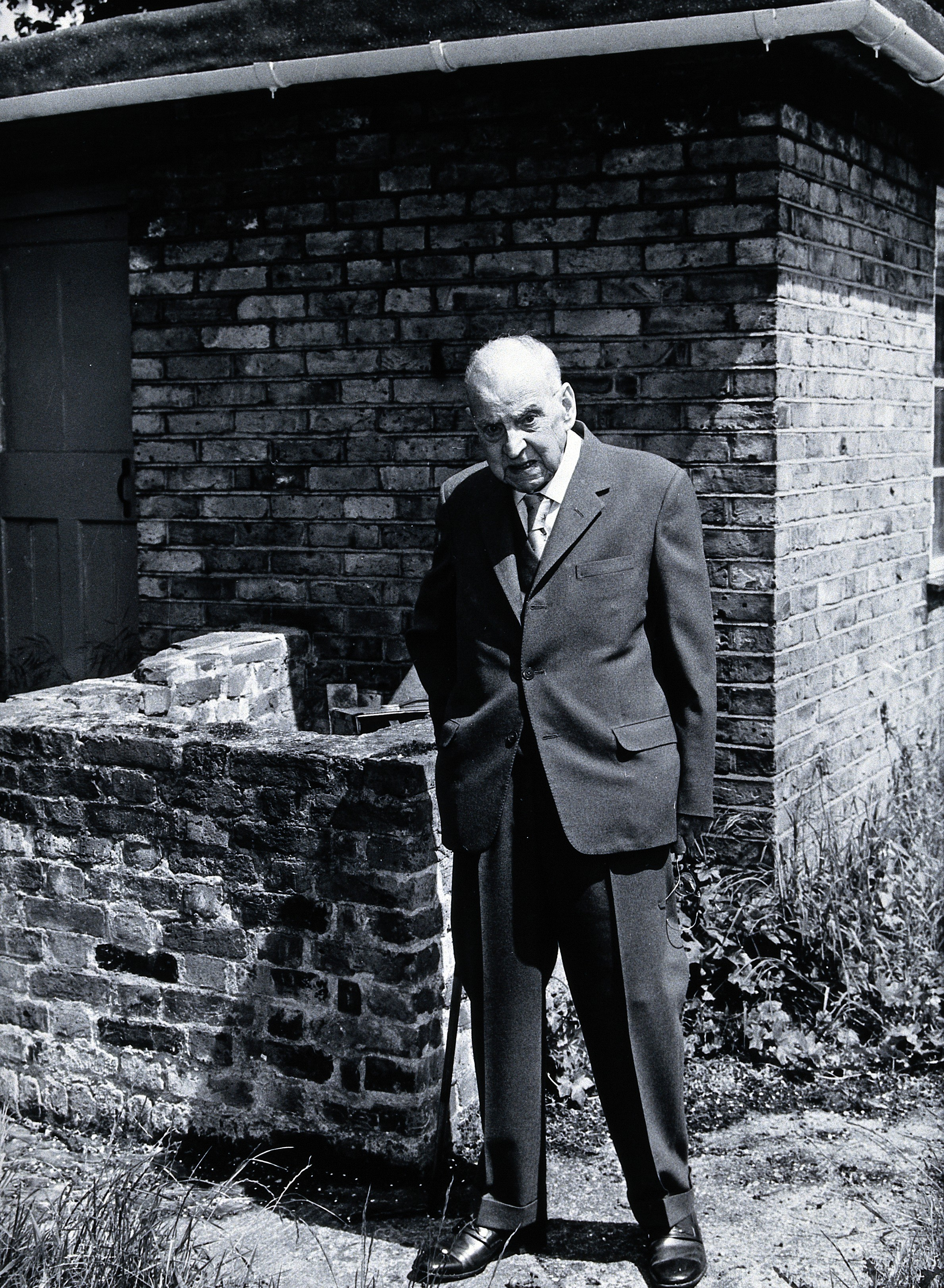 Percy G. Shute. Photograph by the Advertiser. Iconographic Collections Keywords: portrait photographs